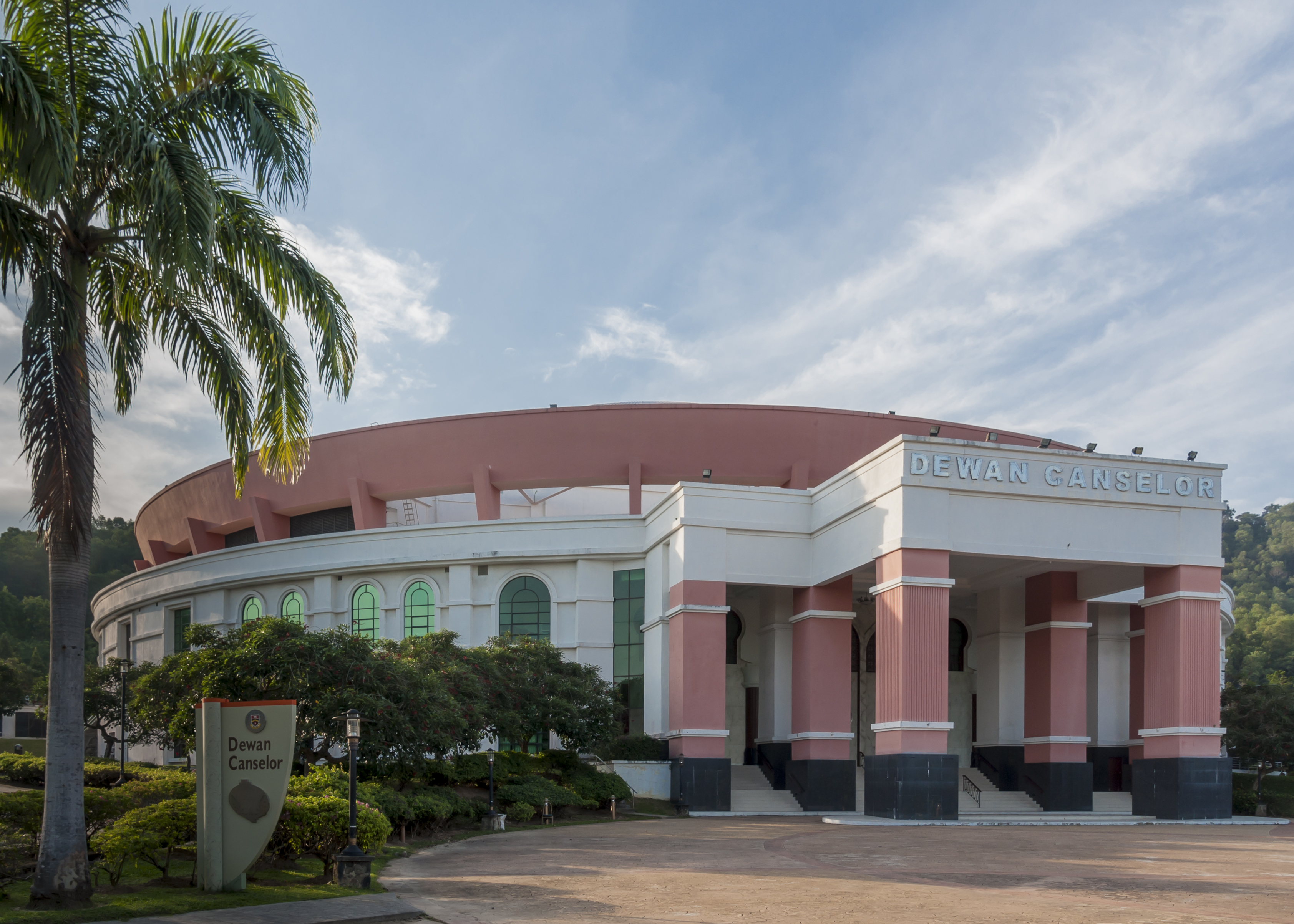 Kota Kinabalu, Sabah: Universiti Malaysia Sabah (UMS), Chancellery (Dewan Canselor)